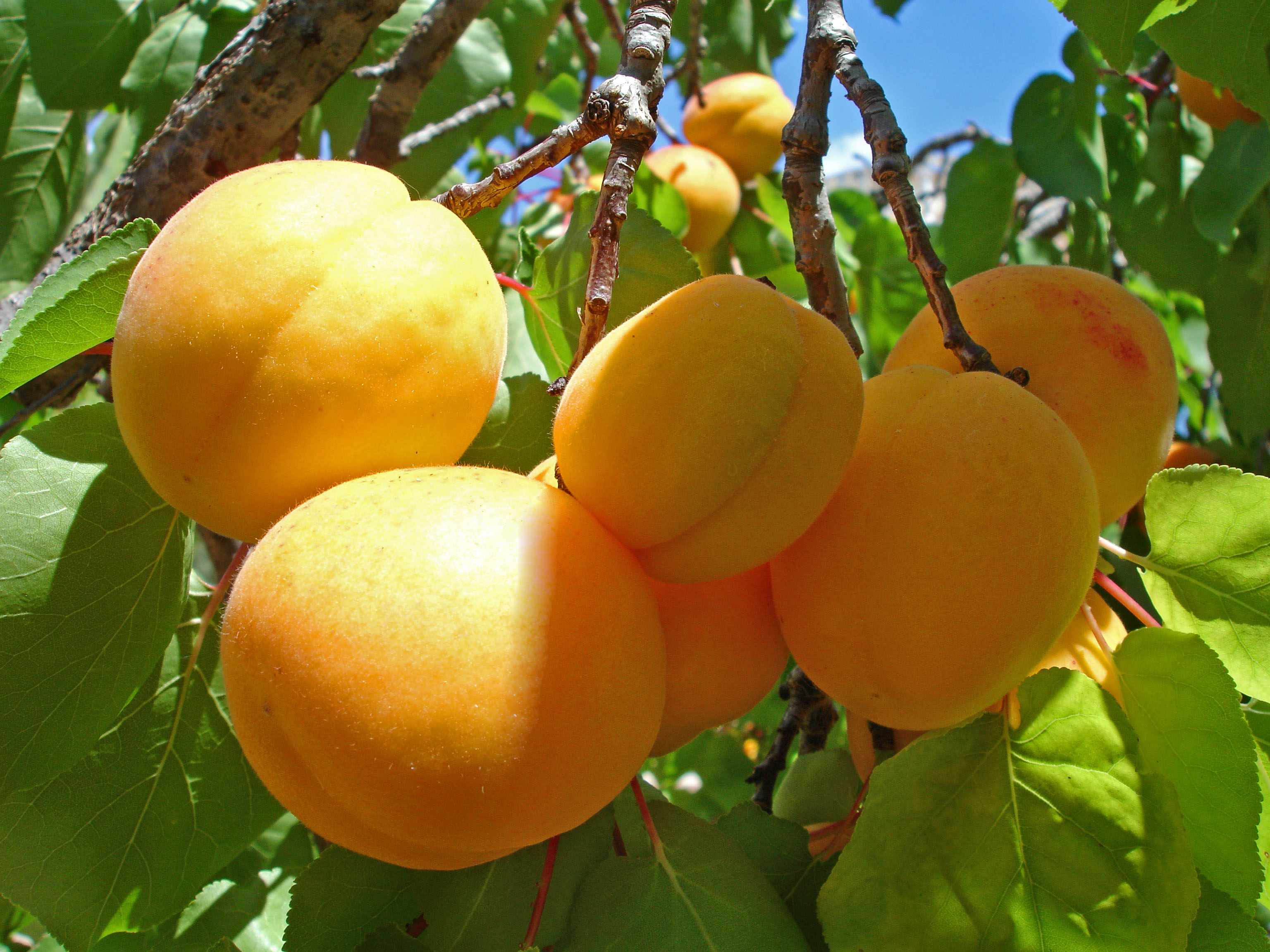 Apricots